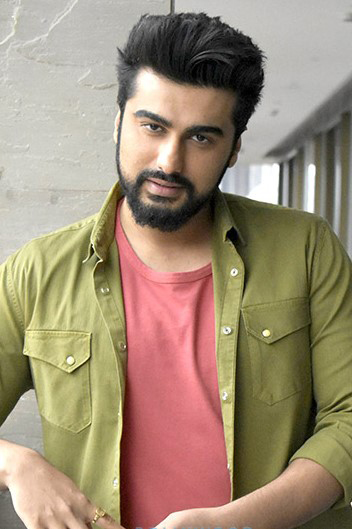 Arjun Kapoor at film promotions of Mubarakan in Delhi.